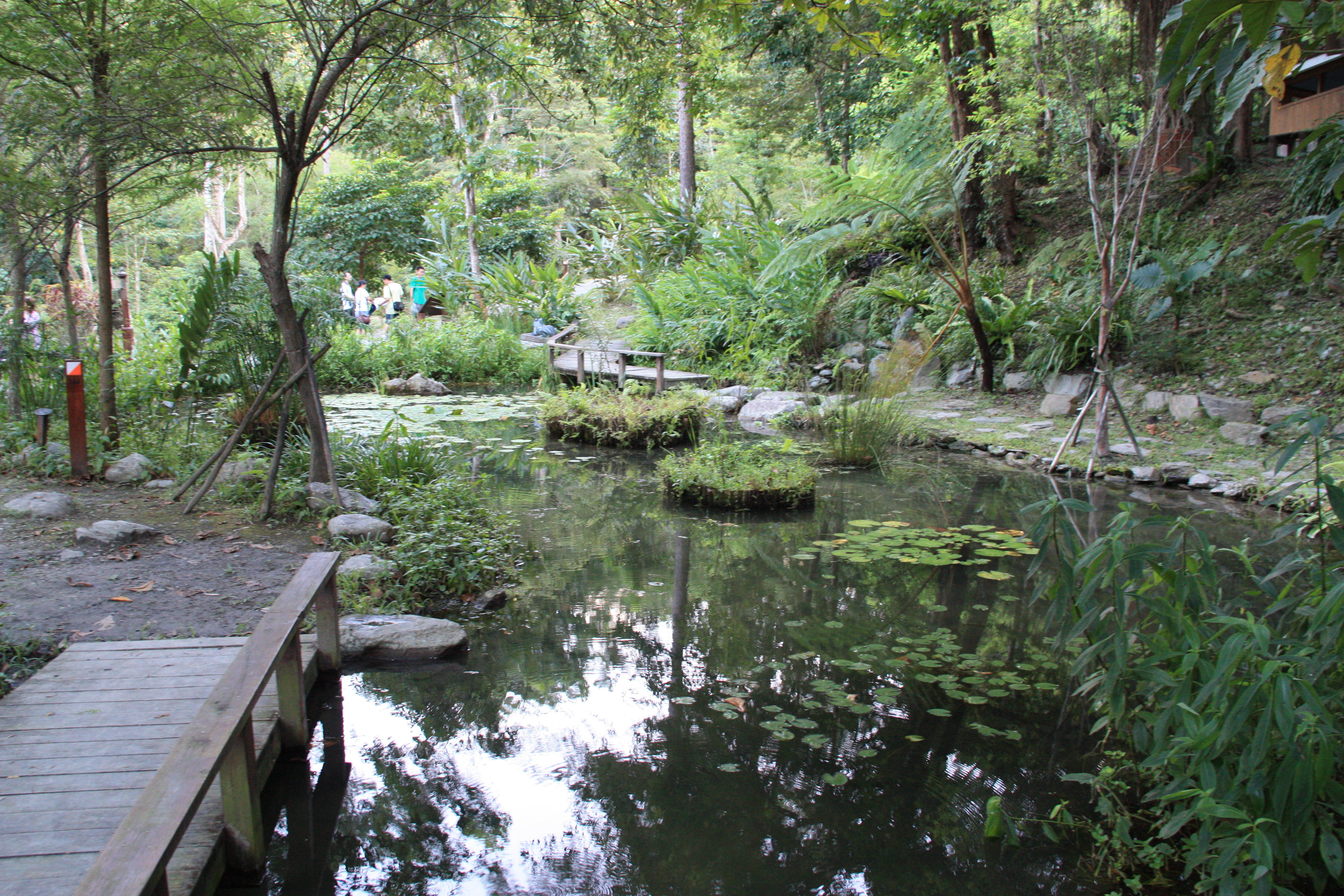 Taitung CountyBeinan TownshipJhihben National Forest Recreation Area